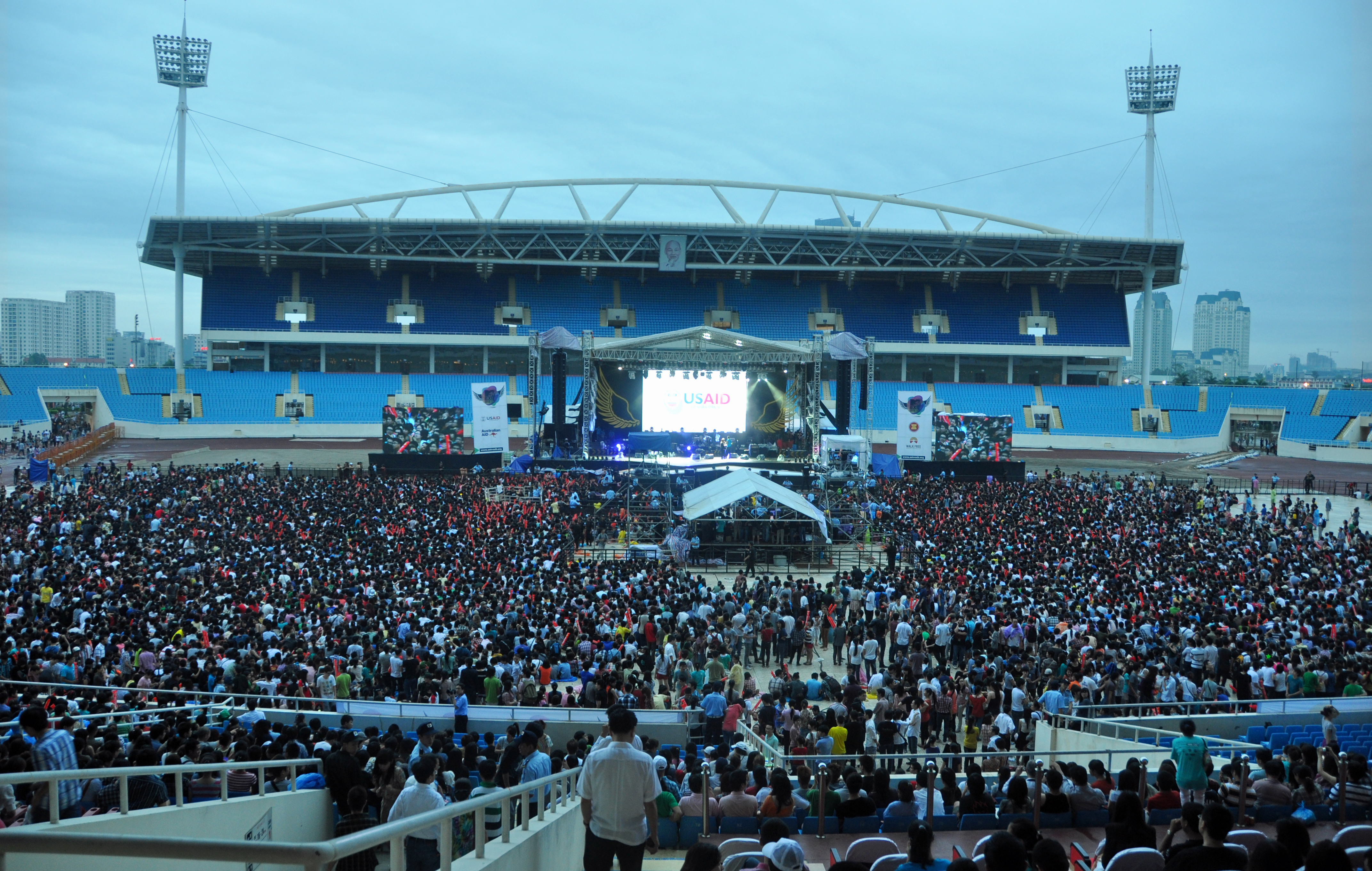 Photo: @USAIDVietnam